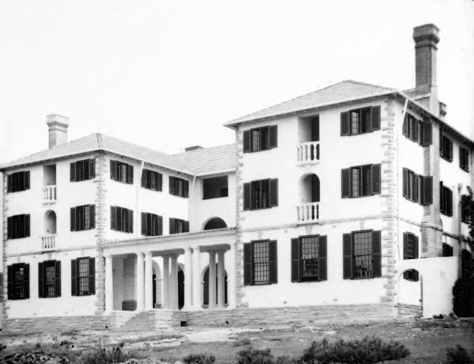 College House from the north-west. College House was the first men's residence at Rhodes University and was completed in 1913. It was built to Kendall and Herbert Baker's plans.